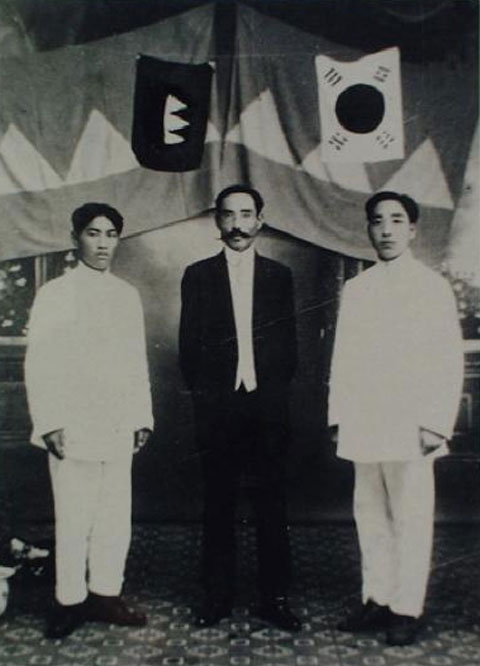 Korean indefendunce activists Shin Seongmo and Shin Kyusik, Shin Geonsik, in Sanghae, 1912s